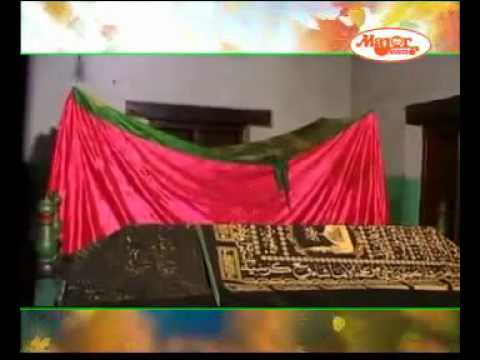 Valiyangode.